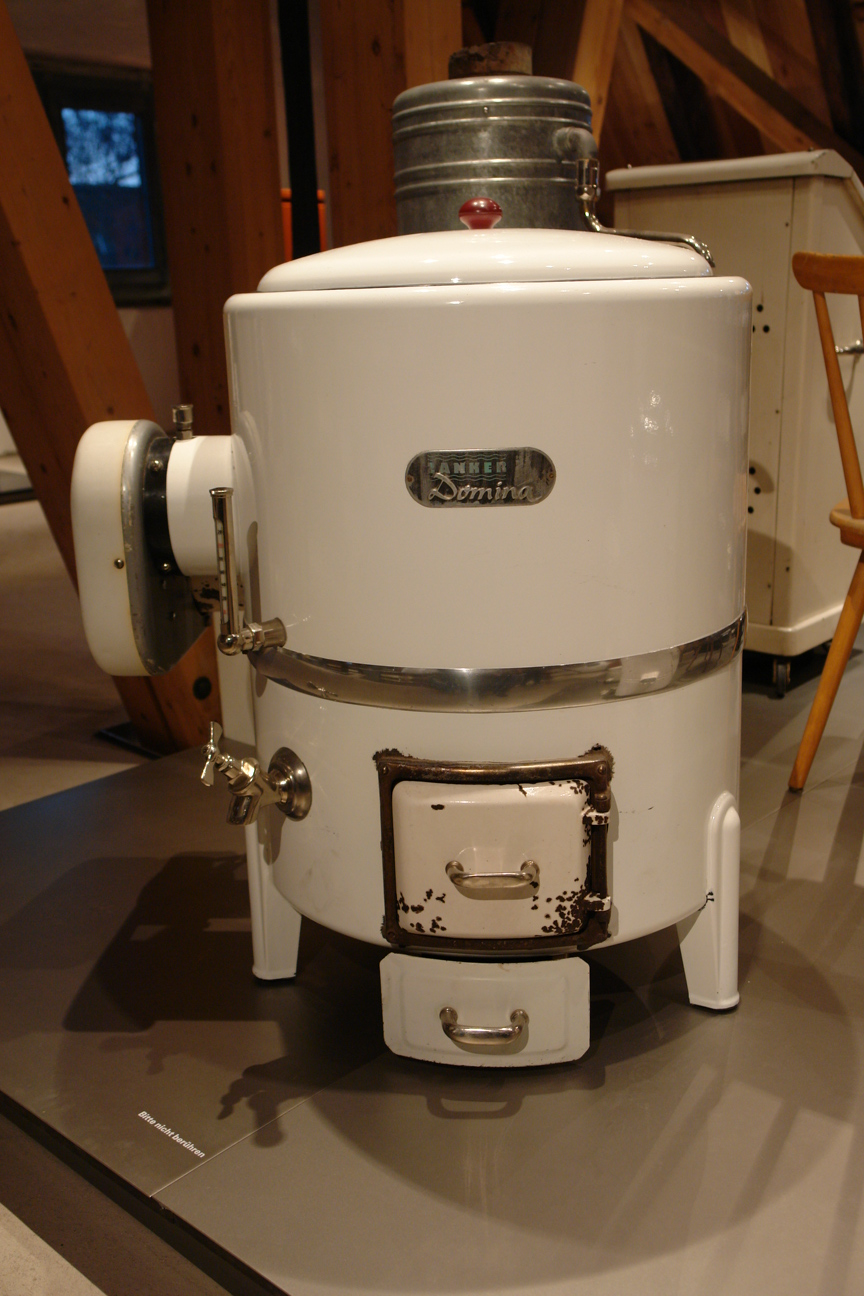 Historical washing machine, model Domina of the manufacturer Zanker